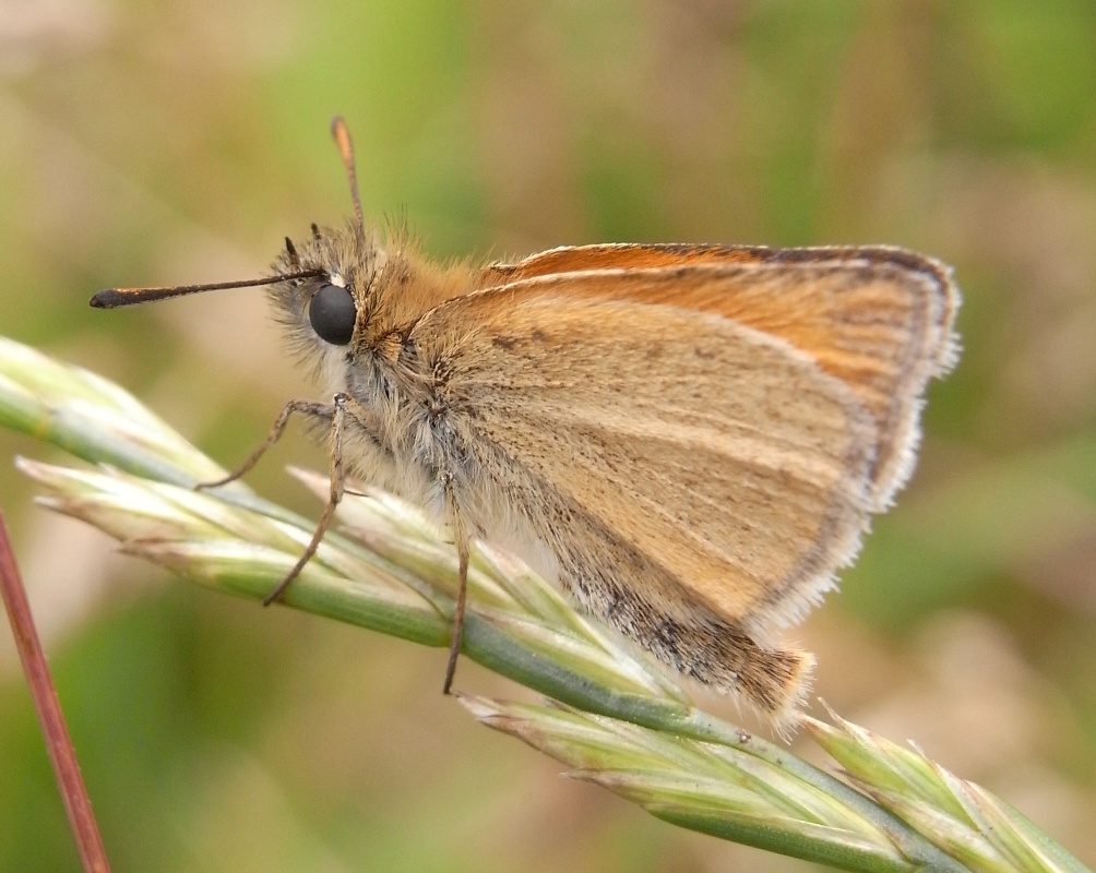 Essex Skipper (Thymelicus lineola) near Hamburg, Germany.